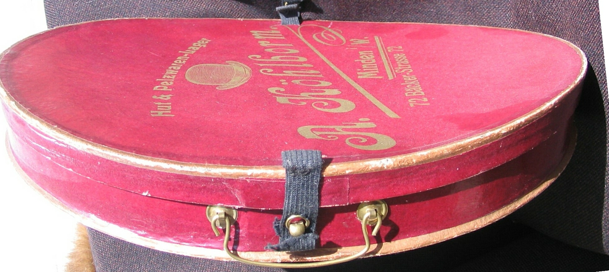 Furrier's hat bandbox